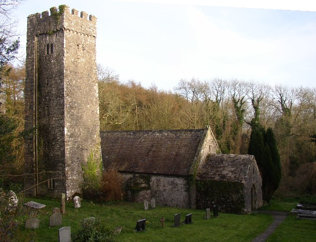 Gumfreston Church. St Lawrence's Church is romantically situated in a wooded dell. It is generally of the 14C to 16C, and has nave, chancel with a small rib-vaulted south chapel, and a west porch (which may be the remains of an older building). The tower was formerly detached. The church was well restored in 1869, including new roofs and church furnishings. Outside there is the shaft of a churchyard cross, and three medicinal springs rise in the churchyard, the water of which contains iron and chalybeate. In the wood to the south of the churchyard wall are the ruins of the village that stood beside the quay on the river estuary. This was a transfer point for goods from the road to little coasting vessels. It was also on the pilgrimage route across south Wales to St David's.